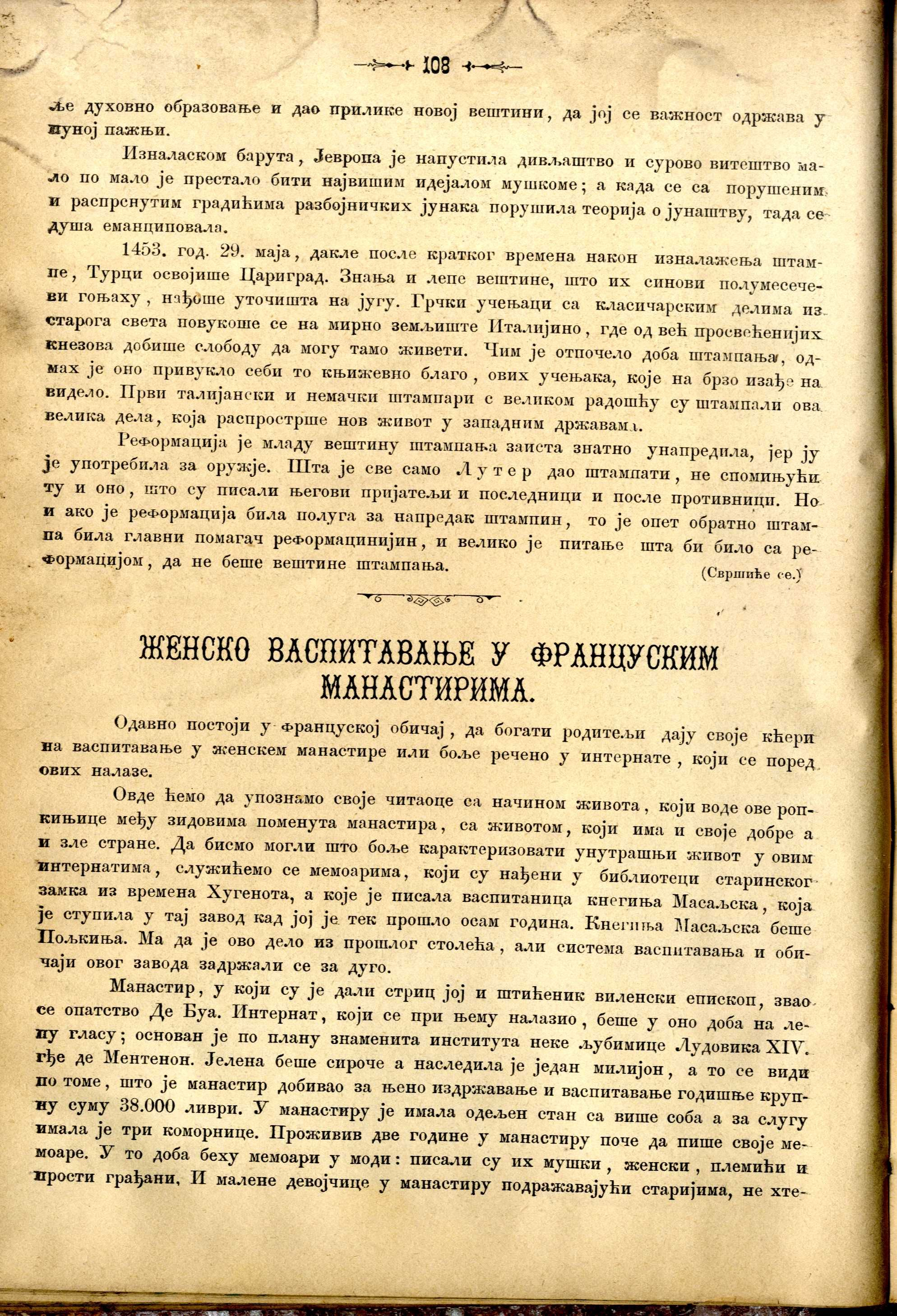 Posestrima, journal from Serbia, 1890